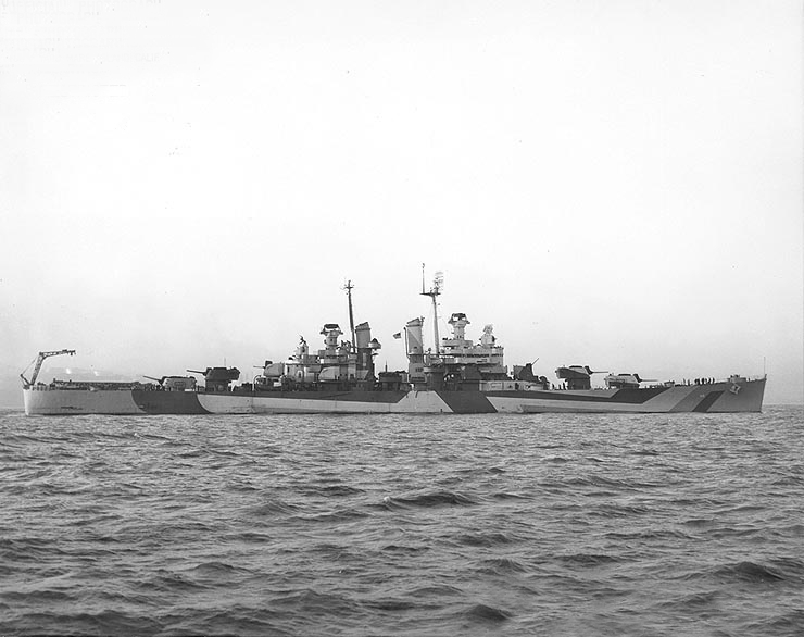 The U.S. Navy light cruiser USS Denver (CL-58) off the Mare Island Naval Shipyard, California (USA), following an overhaul, 3 May 1944. She is painted in Camouflage Measure 33, Design 3d.